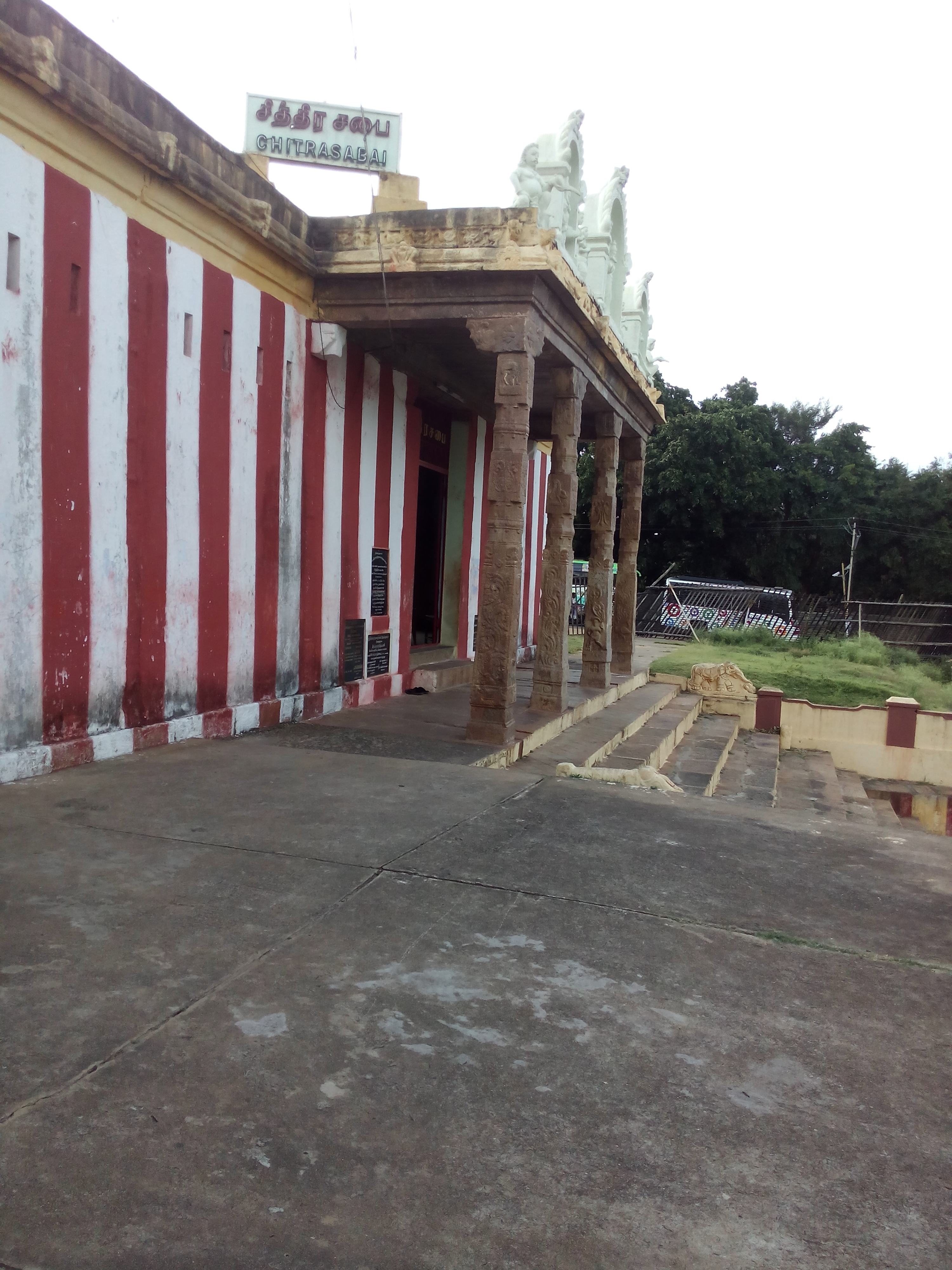 Chithra saba, Courtallam